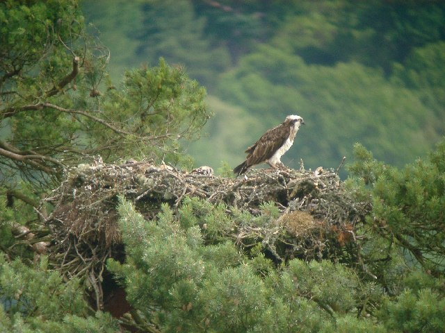 Osprey (Pandion haliaetus) on nest, Loch of the Lowes. Light was on the limit for photo through telescope, can just make out one of the two chicks to the left of the adult. This is one of the few Osprey nests with public viewing, from the Scottish Wildlife Trust viewpoint